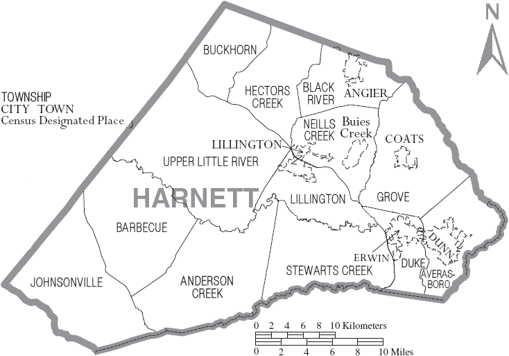 Map of Harnett County, North Carolina, United States with township and municipal boundaries